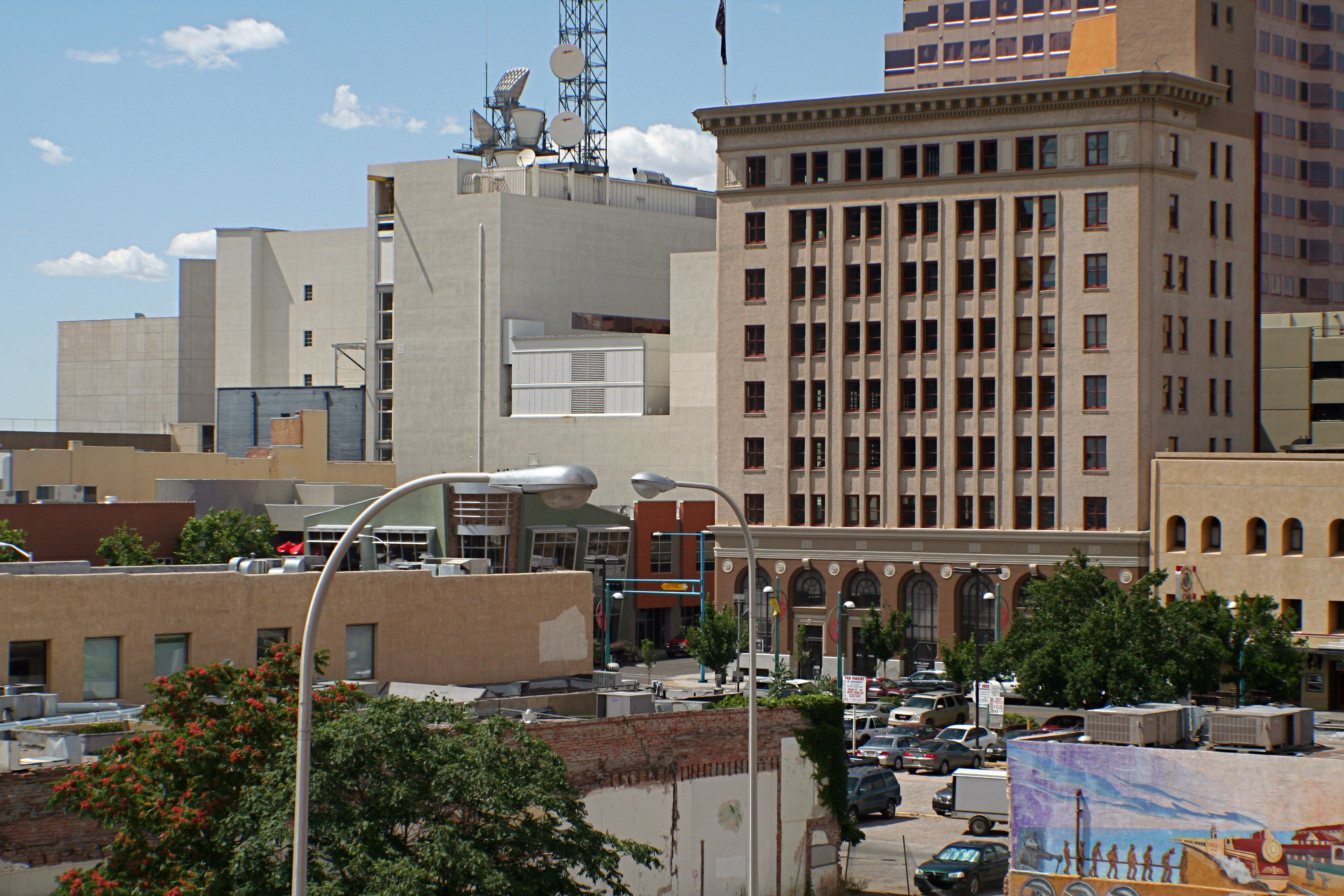 Various buildings downtown Albuquerque, New Mexico